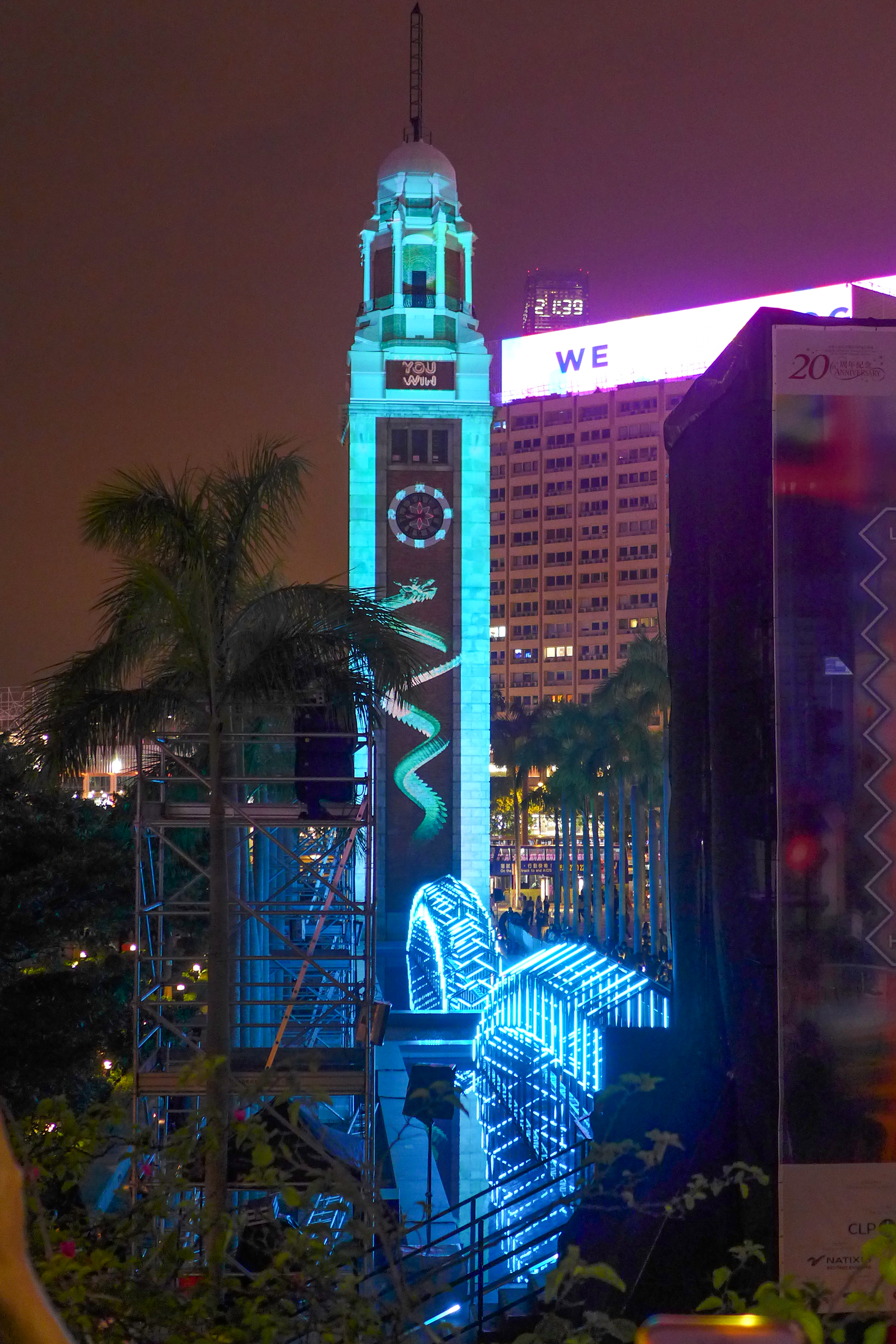 Hong Kong Clock Tower Clock Tower during lumiereshk